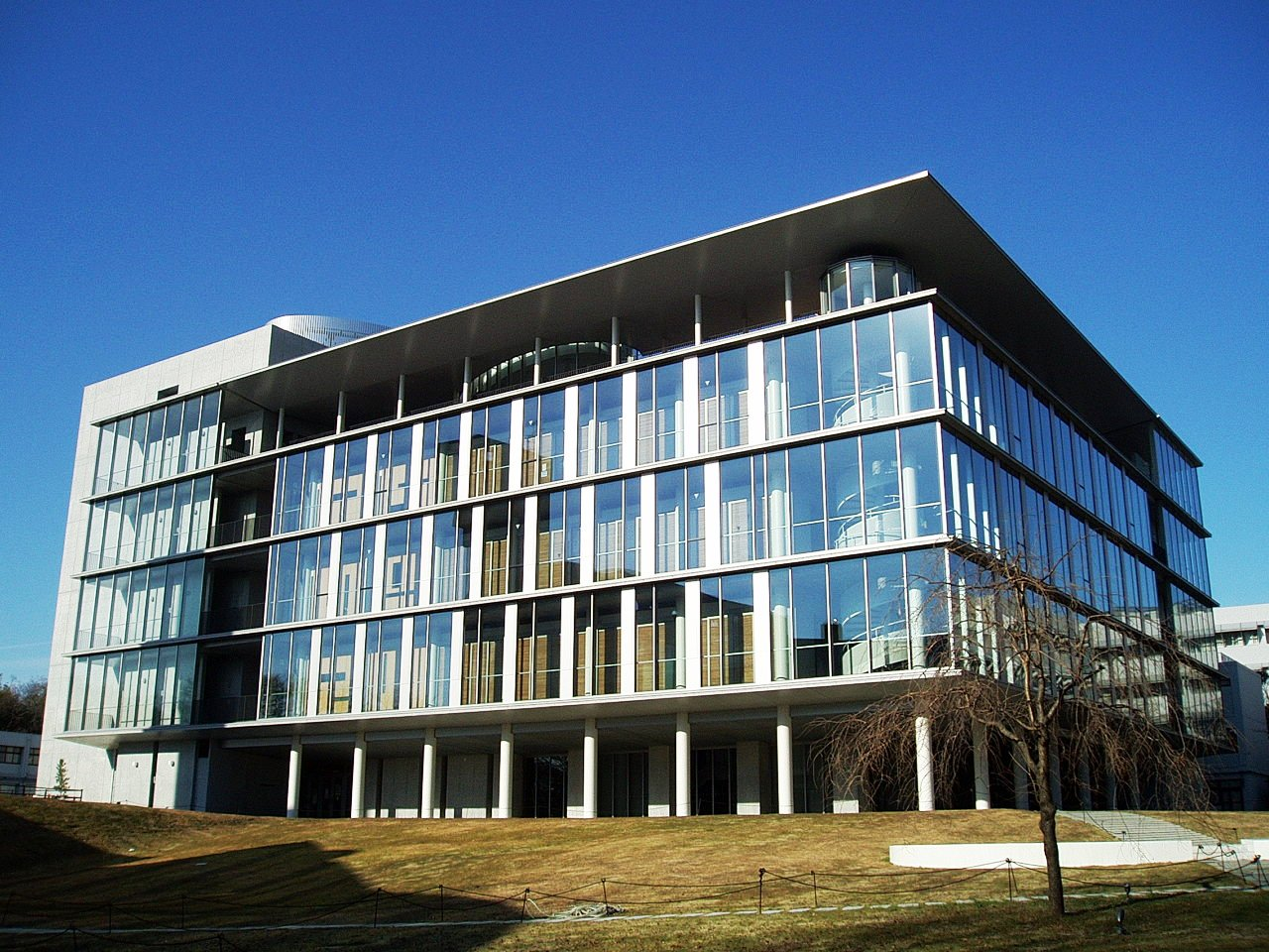 University Central Building, Toin University of Yokohama, built in 2010. Located in Aoba-ku, Yokohama, Kanagawa, Japan.